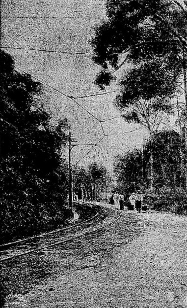 A curve on the line of Companie de S. Christovao, Tijuca (The Brazilian Review, 25 Oct 1904, p. 687)